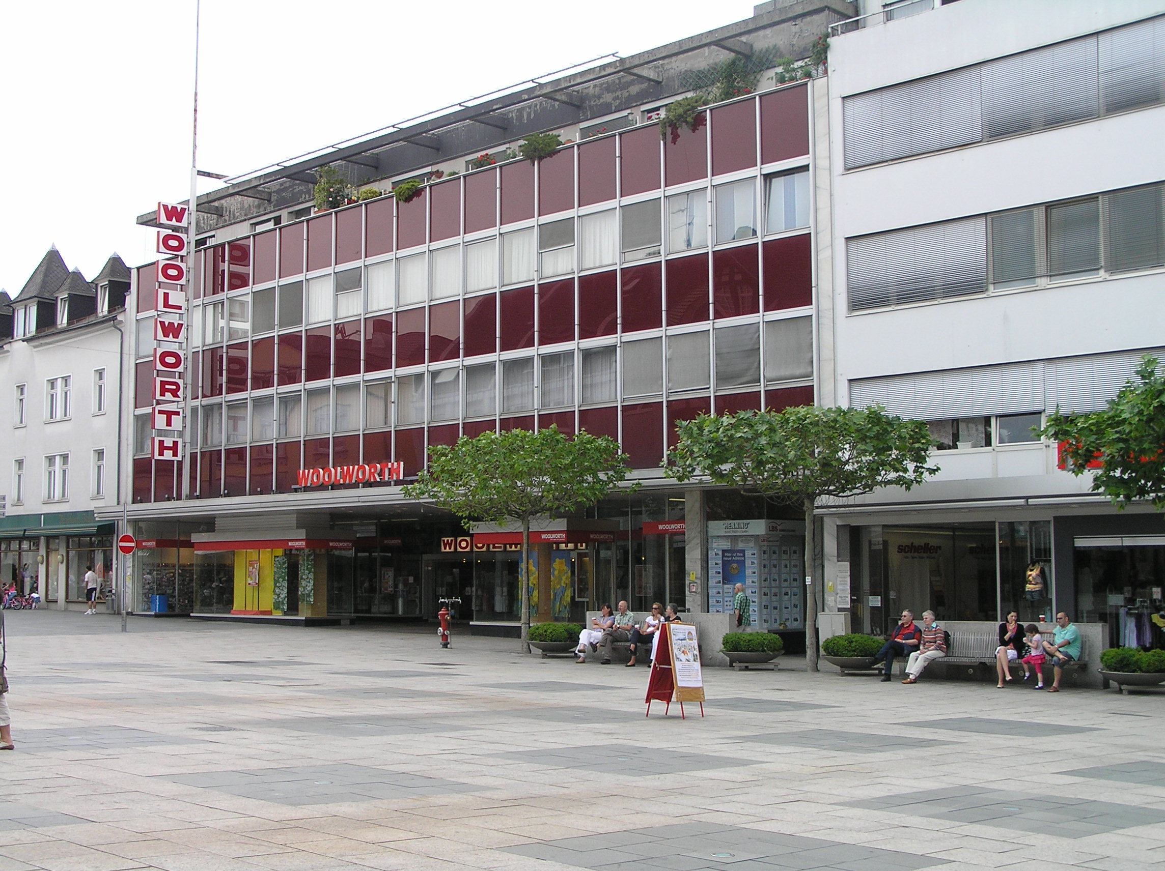 Woolworth department store in Bad Homburg vor der Höhe, Luisenstrasse, Hesse, Germany